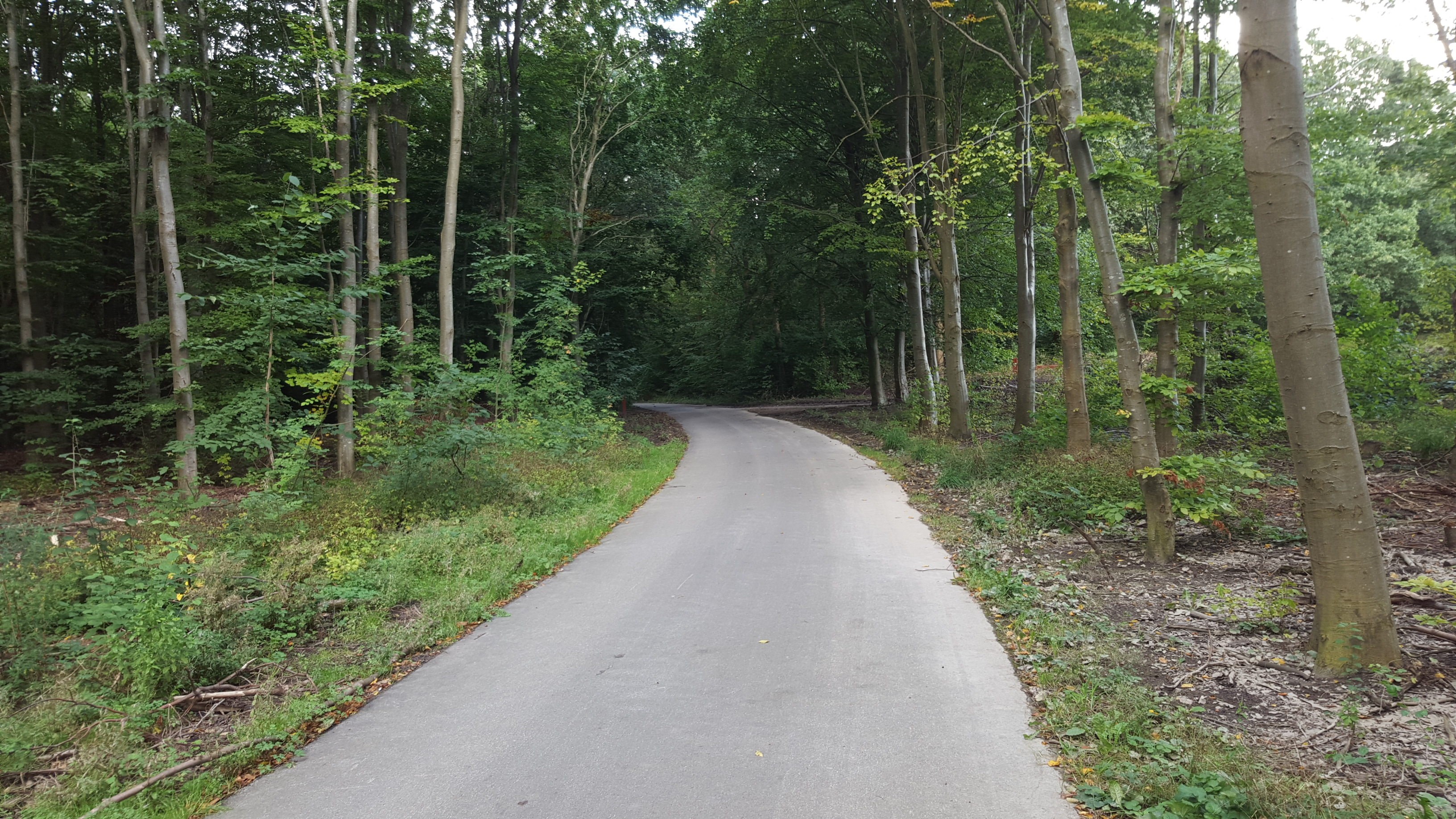 Vestskoven, "Western Forest" which is west of Copenhagen and thus quite easternly i Denmark.